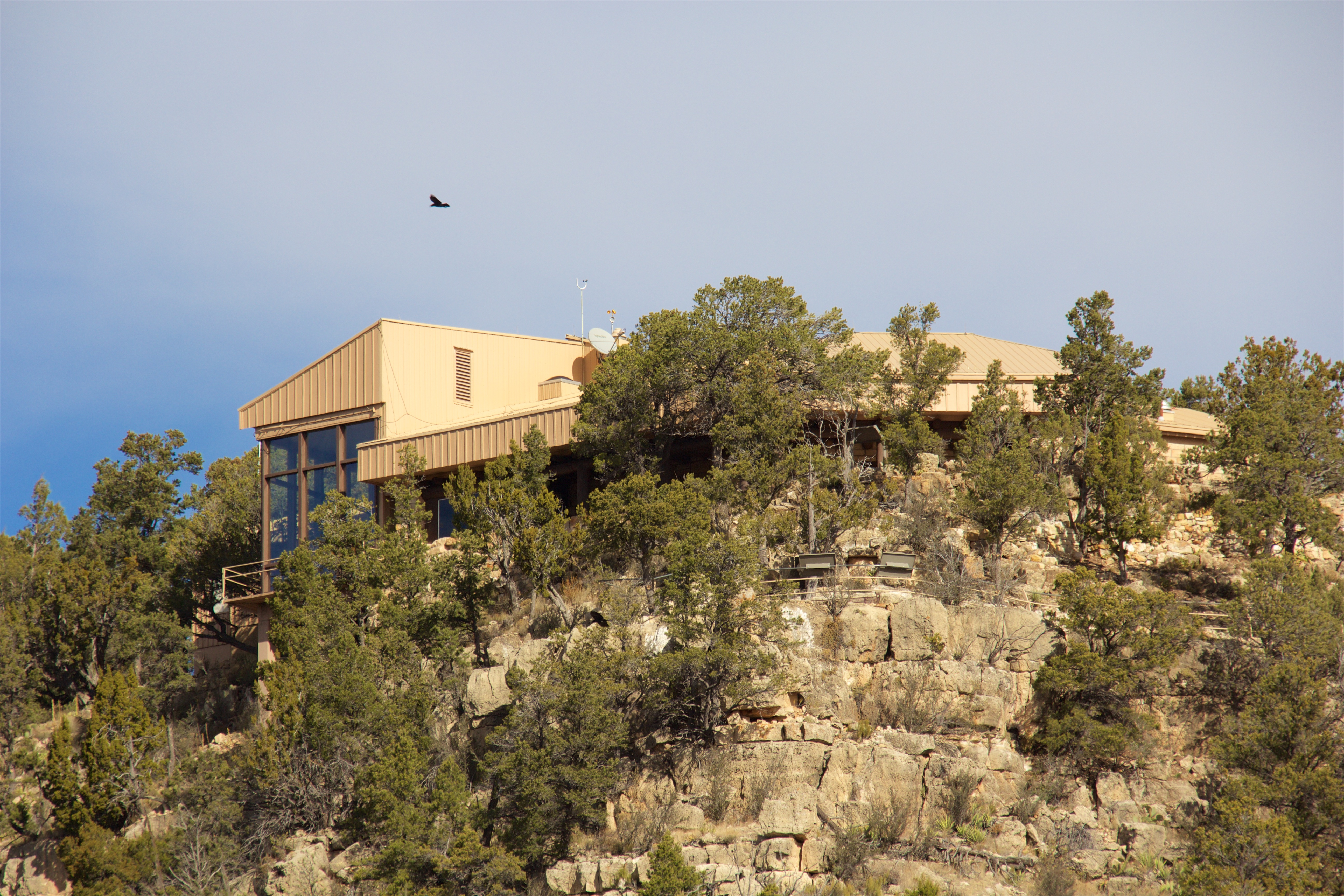 Walnut Canyon National Monument, Arizona, USA.